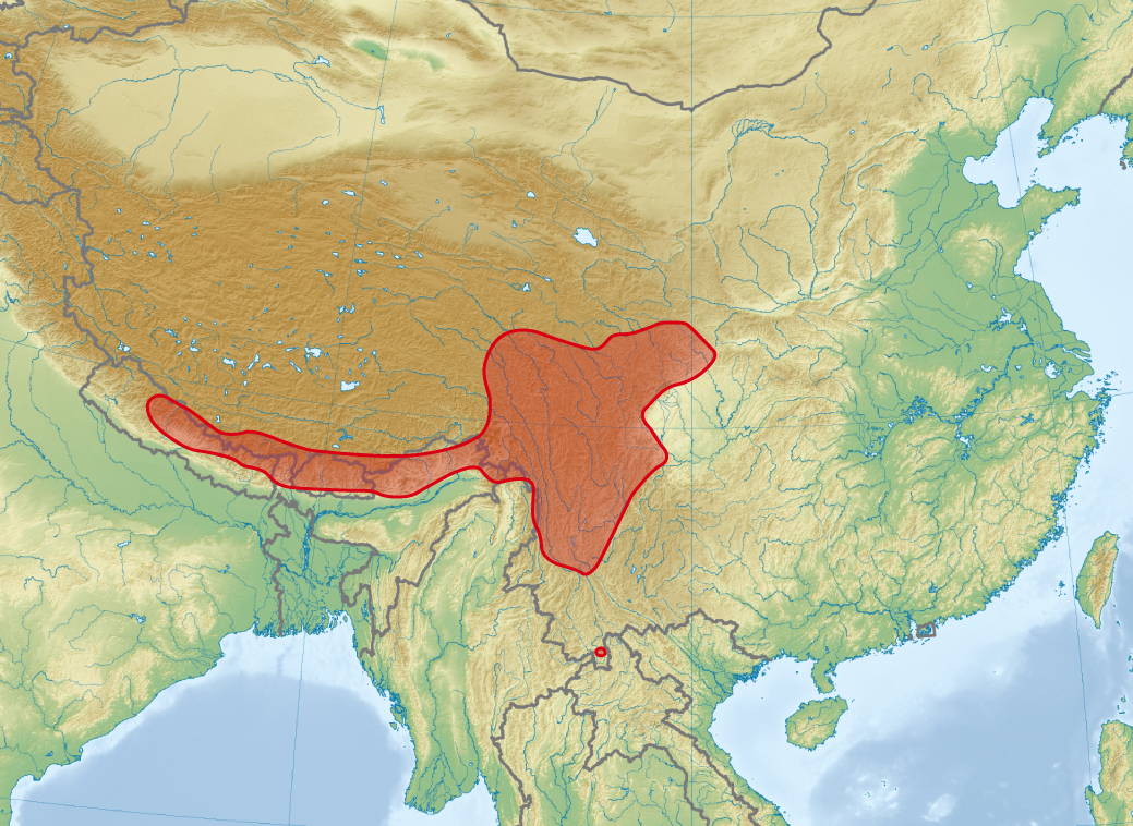 Distribution map of the Rad Panda